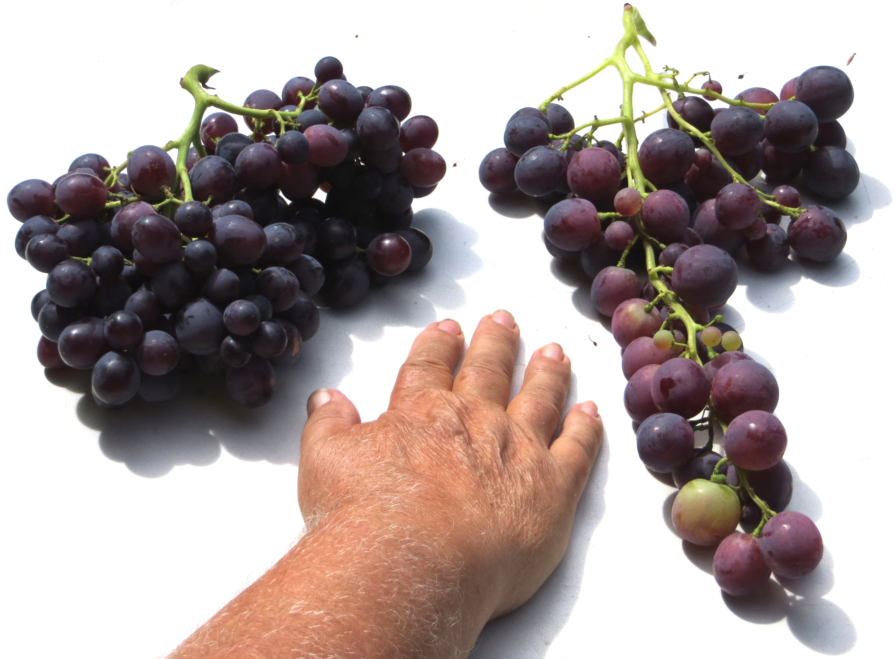 grape: left Cardinal, right Lavallée